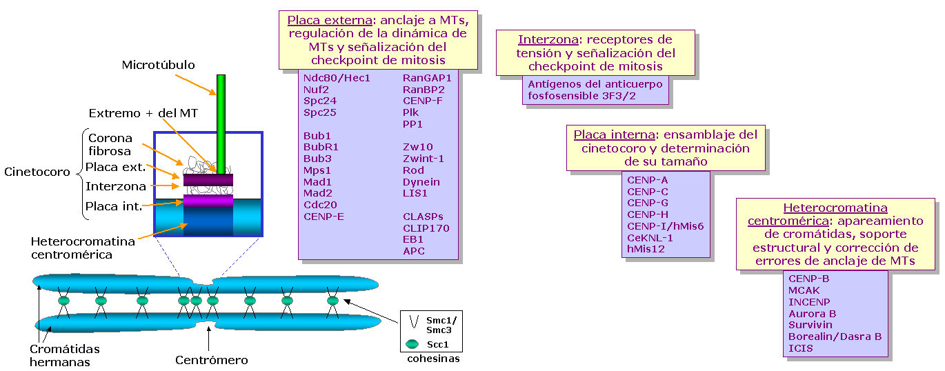 Vertebrate kinetochore structure and components. Based on Maiato et al. (2004) J. Cell Sci. 117(23):5461-5477